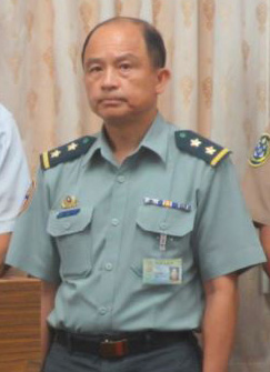 Lieutenant General Pai Chieh-lung, Chief of Staff of the Army Command Headquarters.